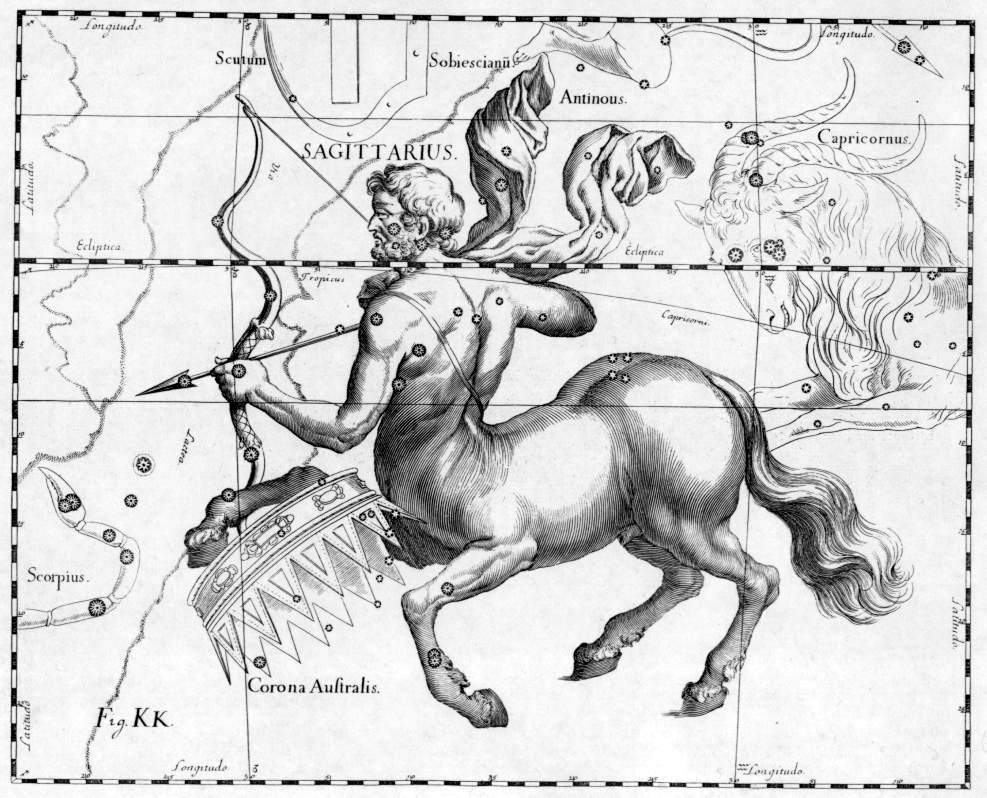 The Sagittarius constellation from Uranographia by Johannes Hevelius. The view is mirrored following the tradition of celestial globes, showing the celestial sphere in a view from "ouside"